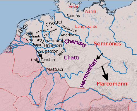 This is intended to improve upon Germania_tribes.png. Apart from better appearance, some details have been removed to make it simpler. A good source: Lanting; van der Plicht (2010), "De 14C-chronologie van de Nederlandse Pre- en Protohistorie VI: Romeinse tijd en Merovingische periode, deel A: historische bronnen en chronologische schema's", Palaeohistoria, 51/52 [1]